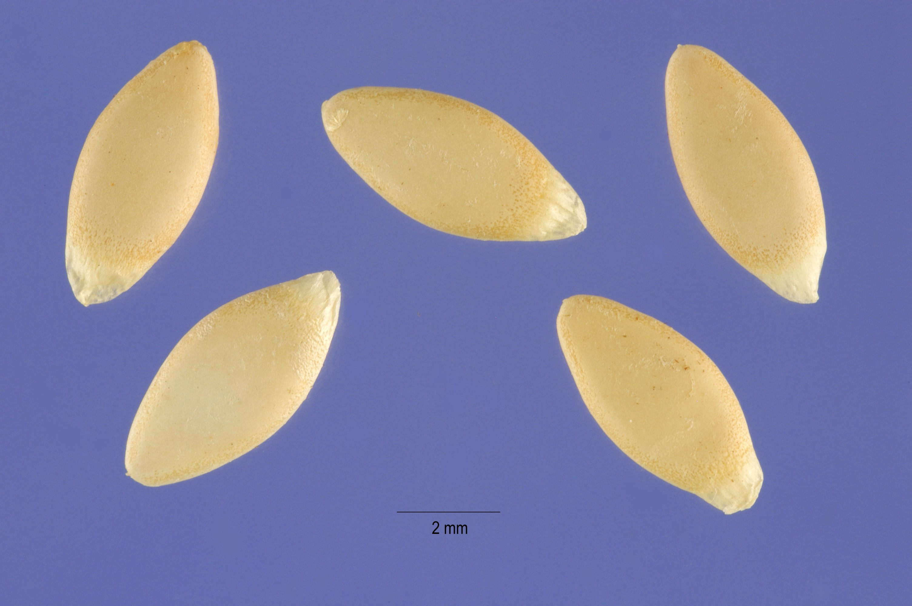 Cucumis anguria seeds